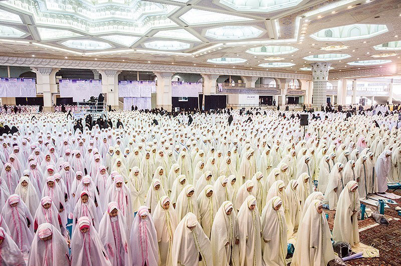 Worship celebration of 12,000 nine years old girl students in Tehran Mosalla.